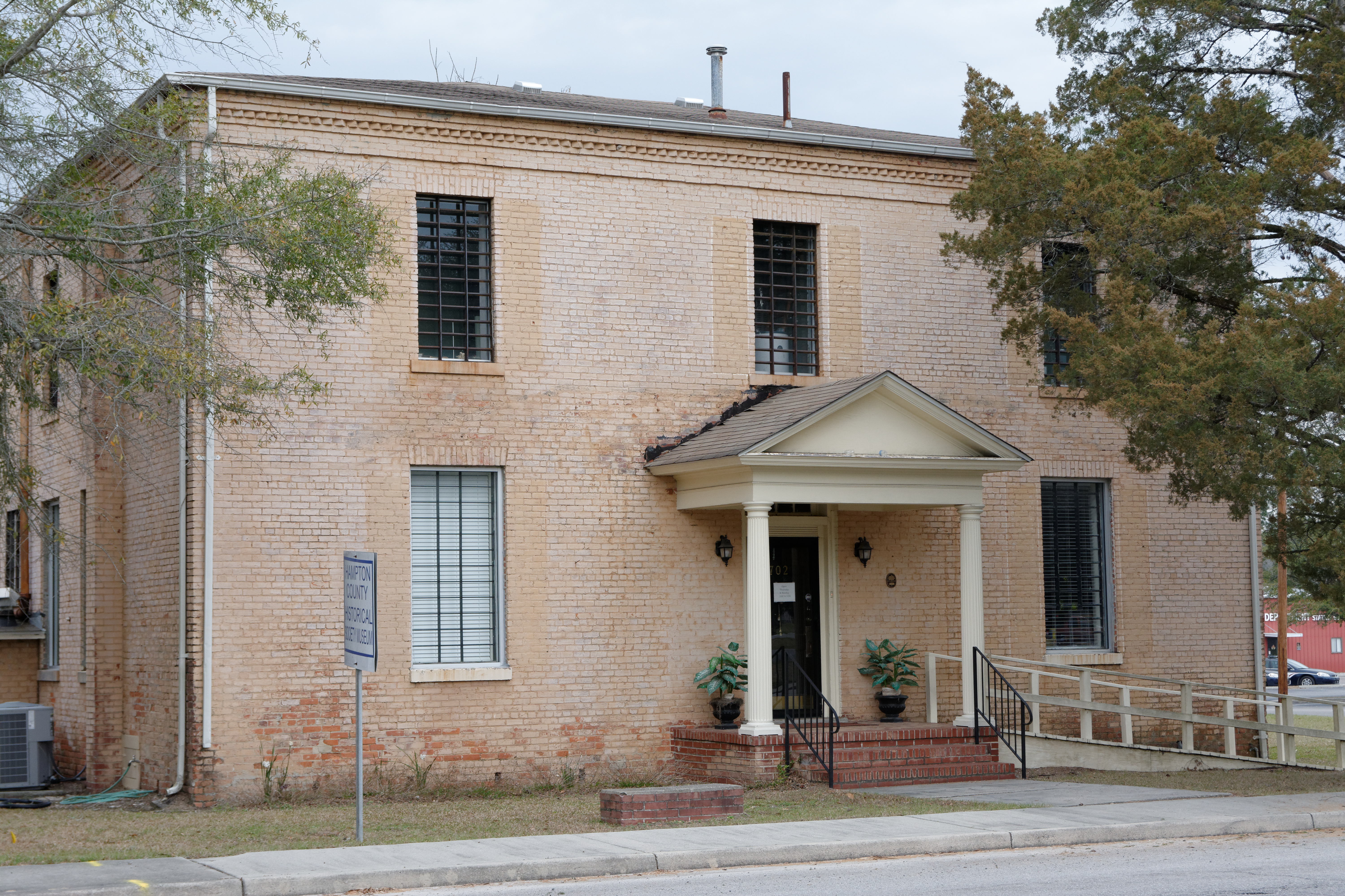 Hampton County Jail, Hampton, South Carolina, U.S. Now houses the historical museum.